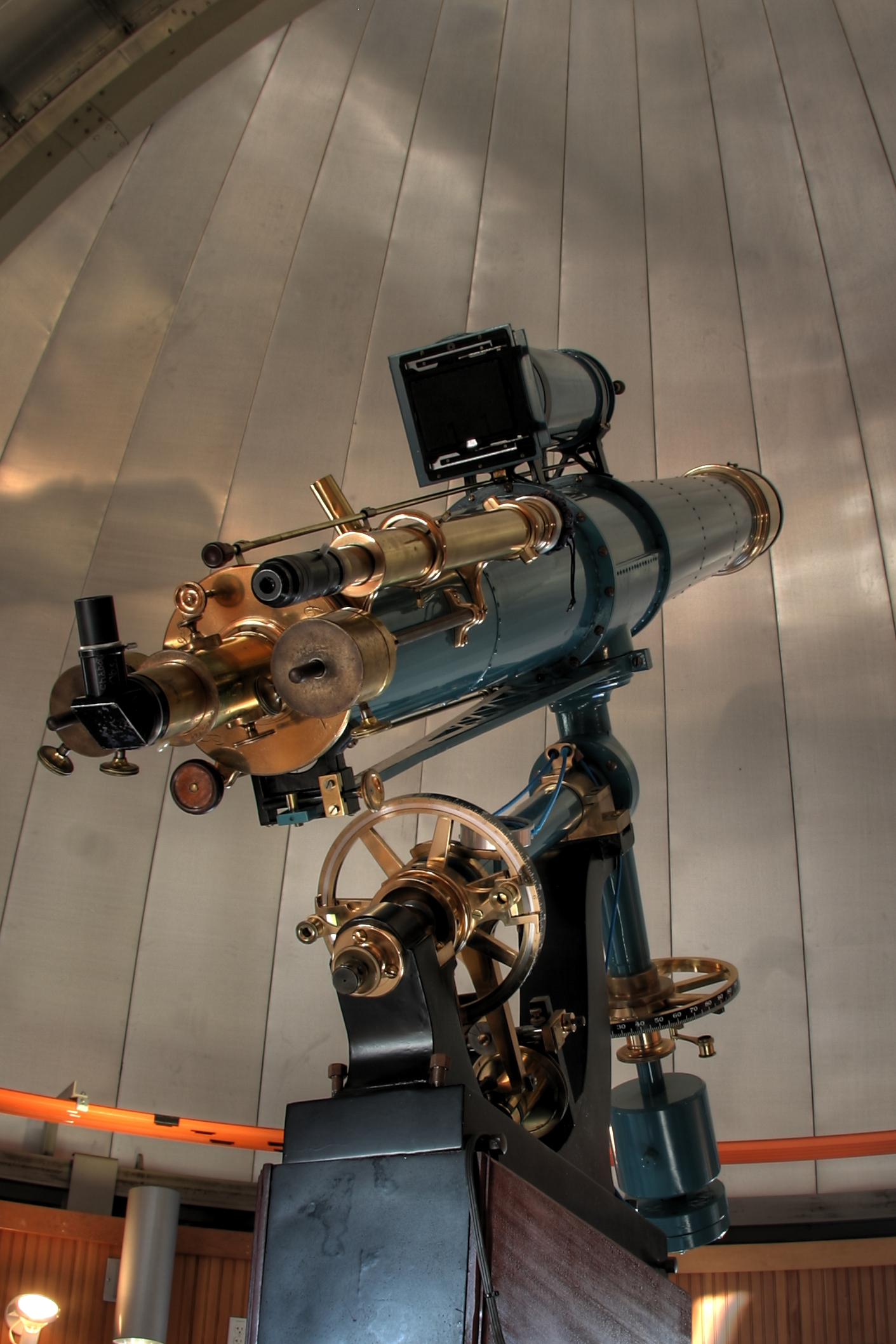 Chabot Space & Science Center's 1883, 8-inch, Alvan Clark refracting telescope, Leah